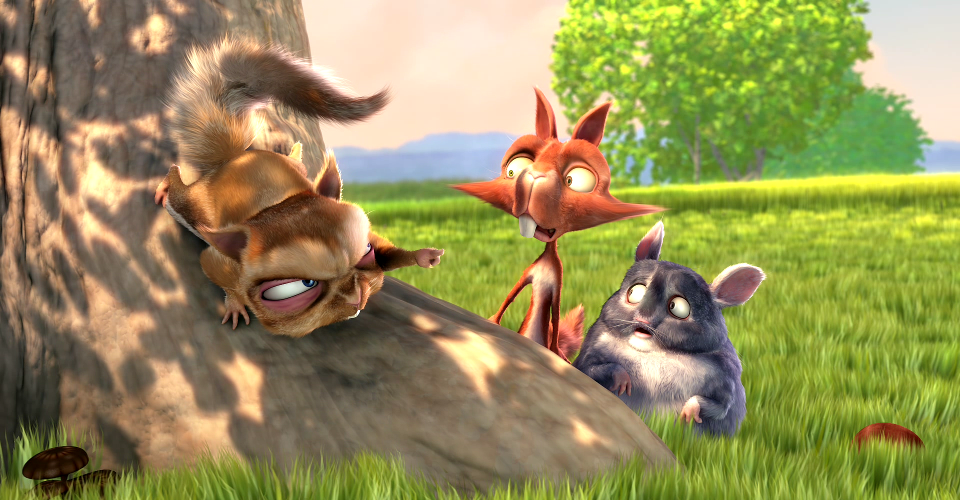 Screenshot of the Big Buck Bunny movie